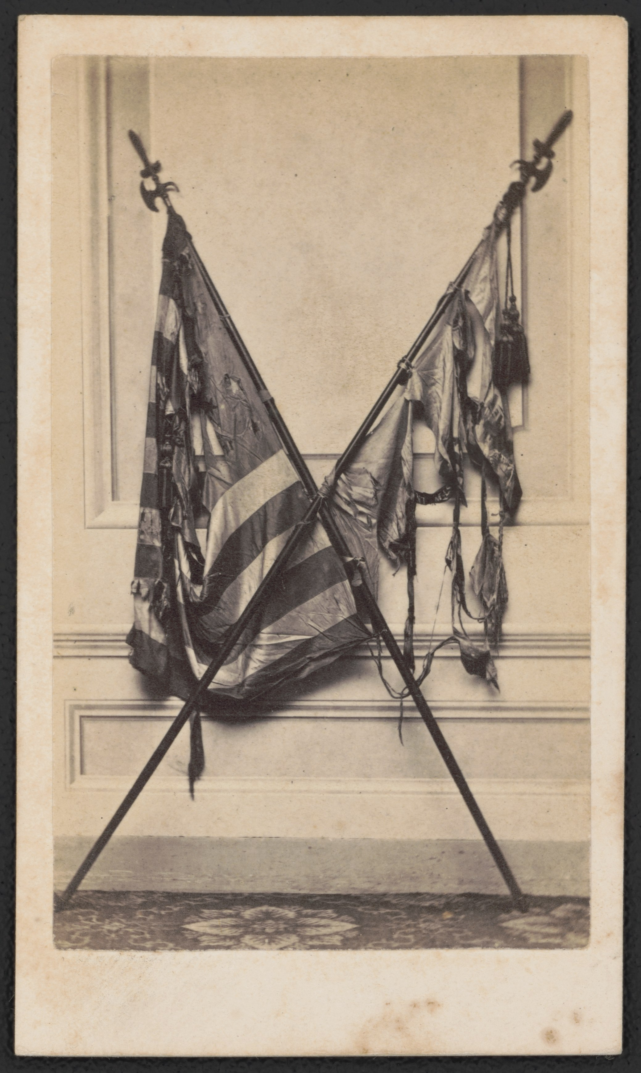 Title: Tattered flags of the 19th Massachusetts Infantry Regiment after a battle] / Photographed by John P. Soule, 199 Washn. St., Boston Abstract/medium: 1 photograph : albumen print on card mount ; mount 11 x 6 cm (carte de visite format)